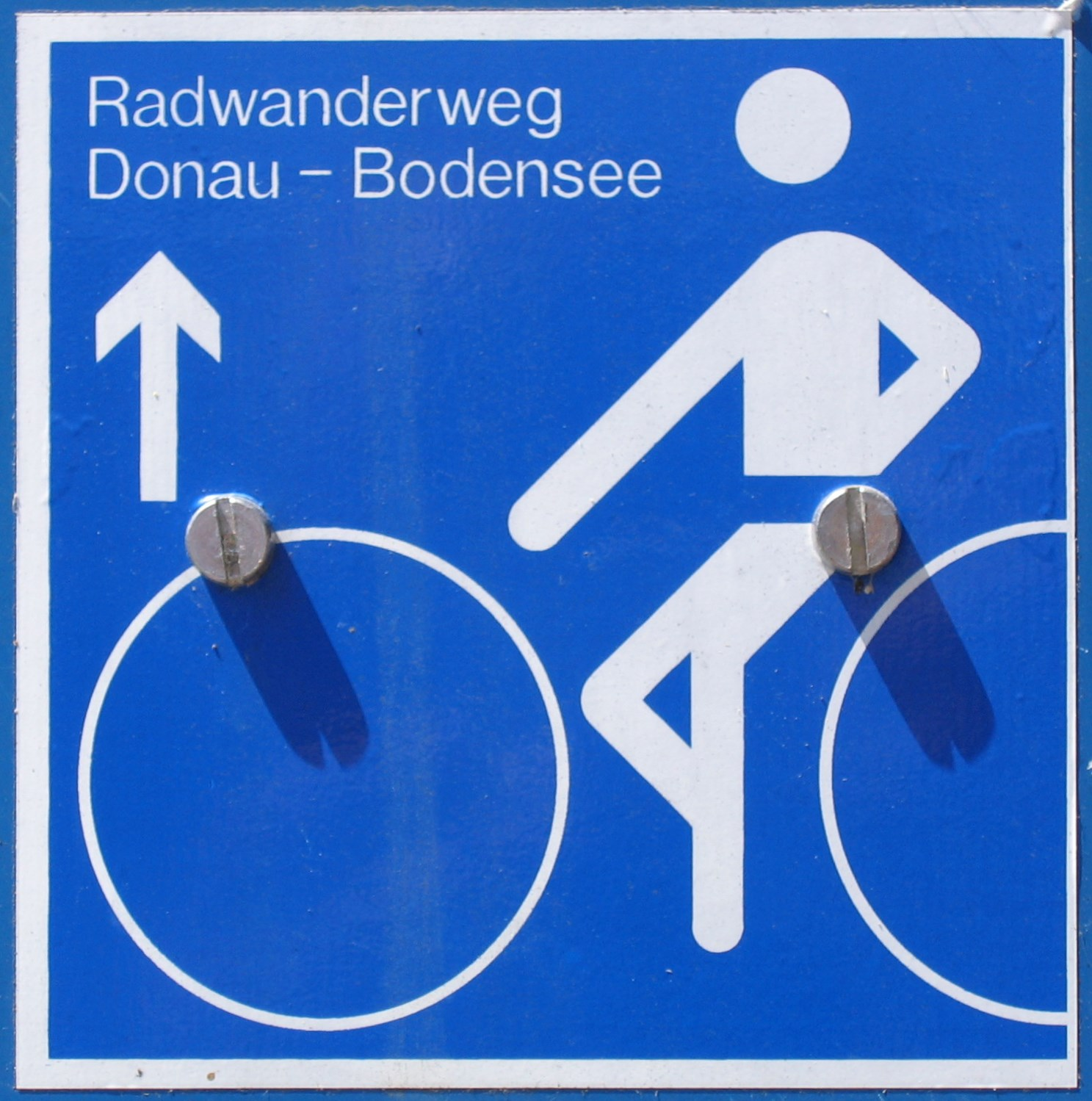 Germany - Baden-Württemberg - Bodenseekreis - Tettnang - Wielandsweiler: cycling route sign of "Radwanderweg Donau-Bodensee"